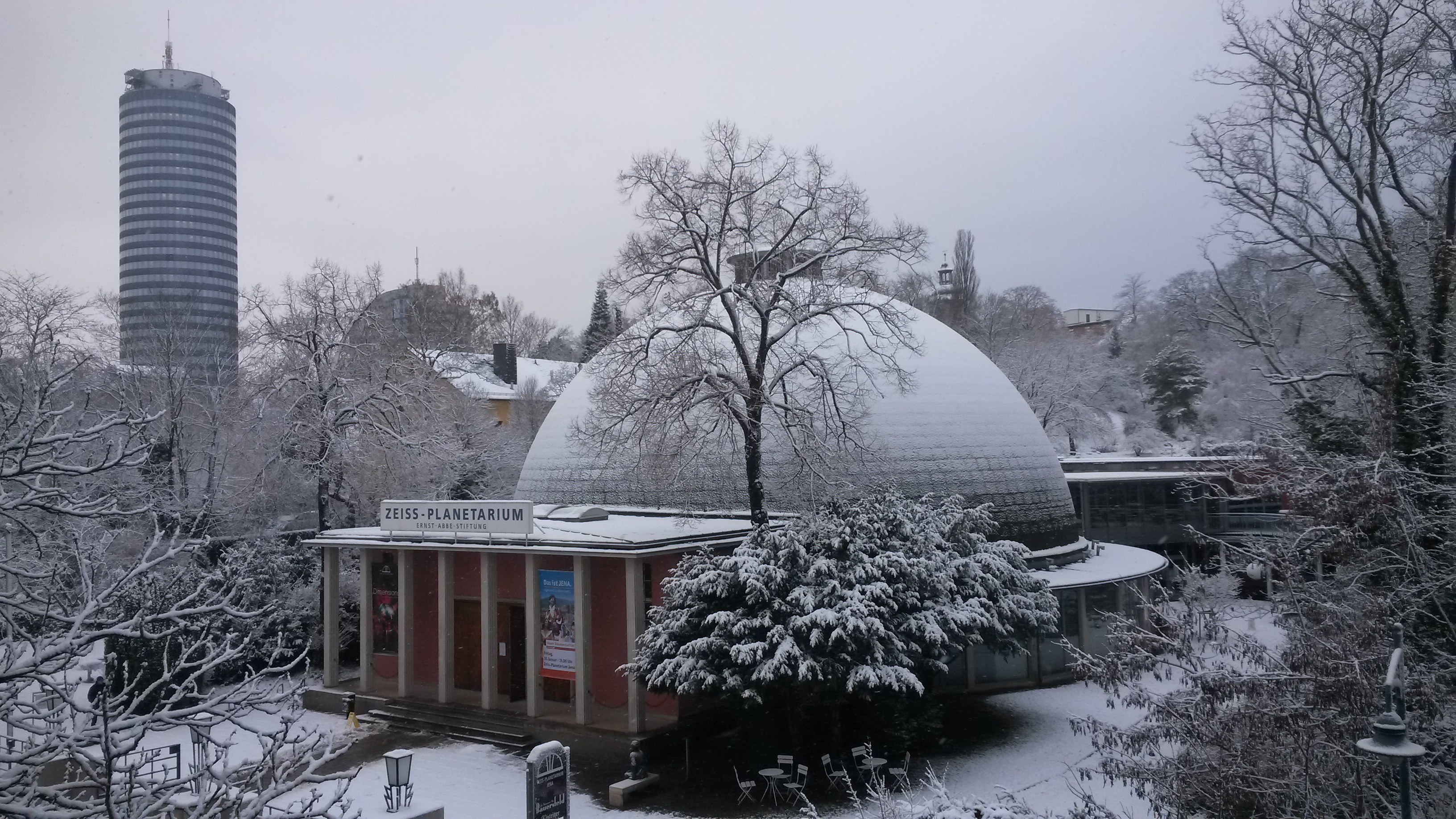 The planetarium Jena, covered in a thin layer of snow, with Botanical Garden and JenTower in the background.